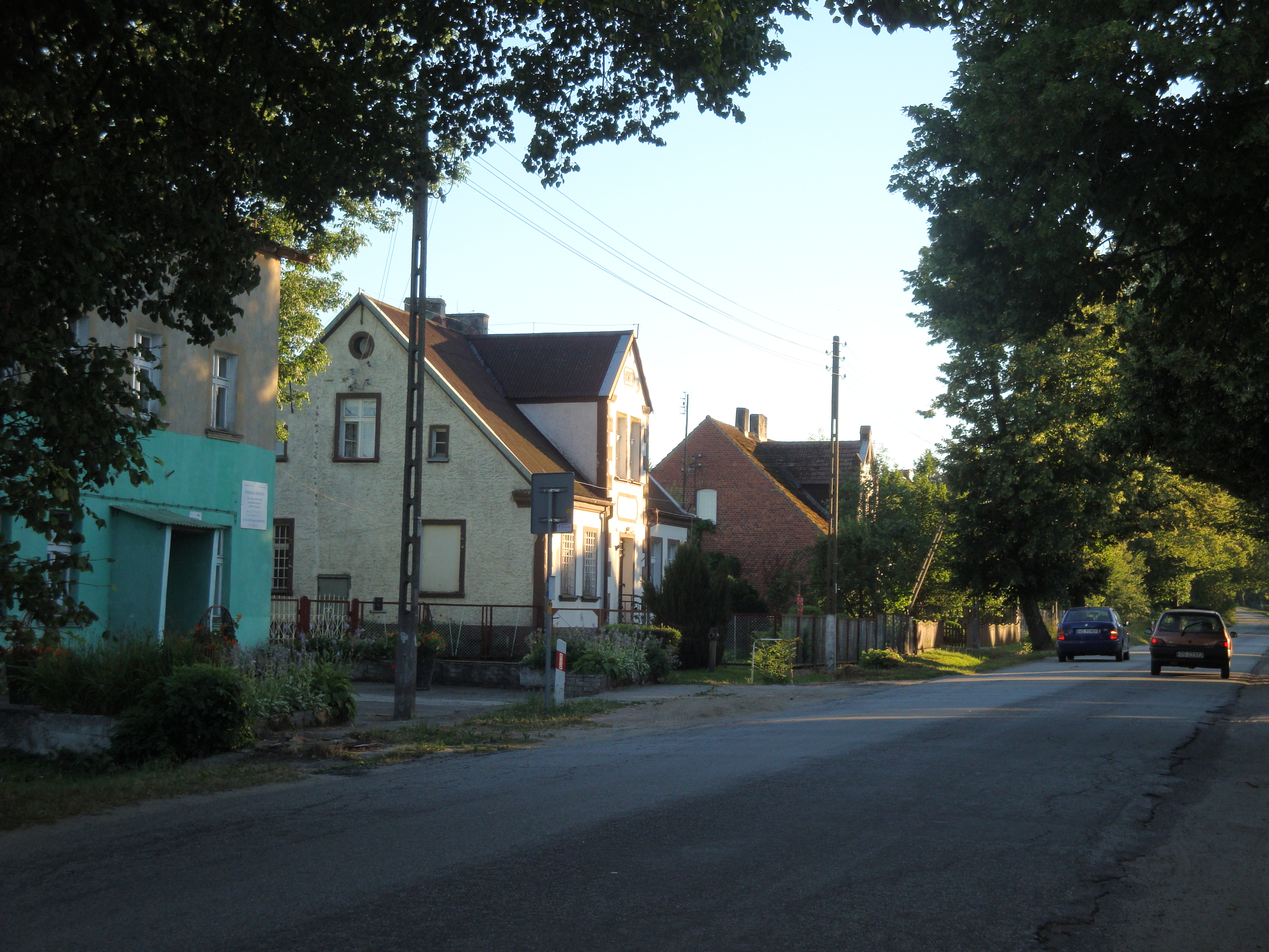 Pobłocie-village in Pomeranian Voivodeship, Poland.